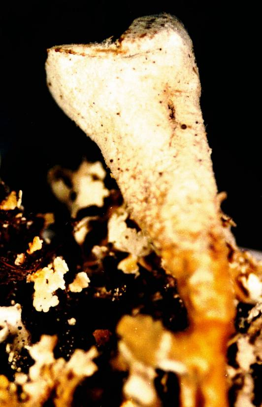 Cladonia pleurota (Flörke) Schaerer, 1850 ? (photograph of a herbarium specimen) Growing in moss in moist conifer woods on the shore of Lake Superior in Neys Provincial Park, ca. 15 miles N of Marathon on Route 17, Thunder Bay District, Ontario, Canada; collected and identified by Richard E. Riefner (No. 81-620, 2 Aug 1981); specimen is now in the Lichen Herbarium of the New York Botanical Garden.